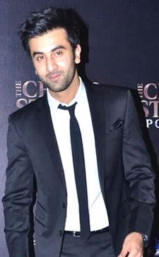 Ranbir Kapoor at KWAN-Chivas bash